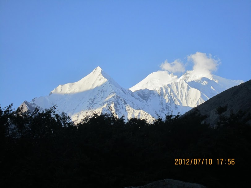 snow caped mountain diran peak